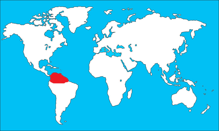 Range map for (Ara severa) Scarlet Macaw.